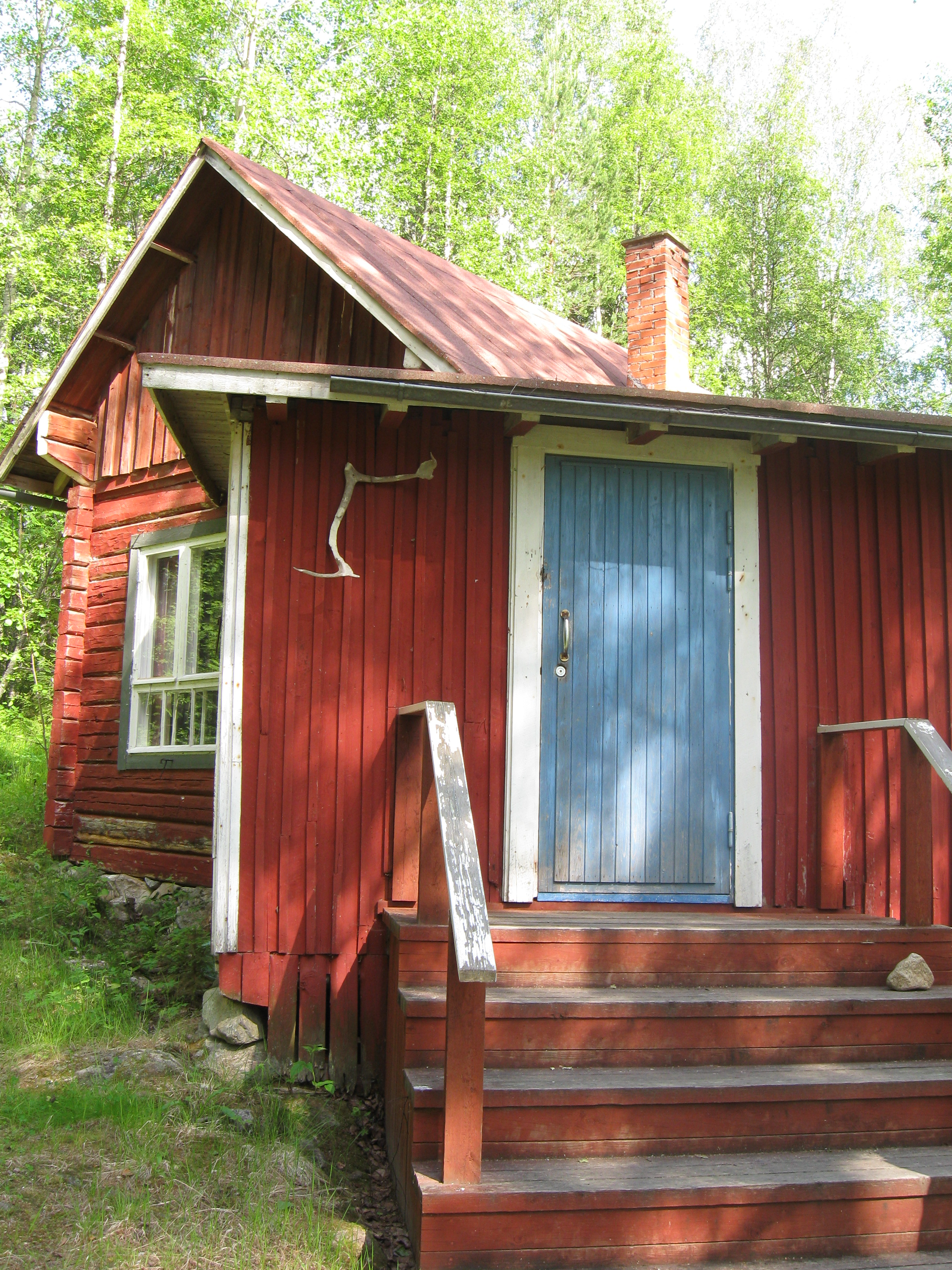 The "Kohtalon korsu" and "Ikin tupa" buildings in Turjanlinna, Suomussalmi, owned by the Finnish author Ilmari Kianto.